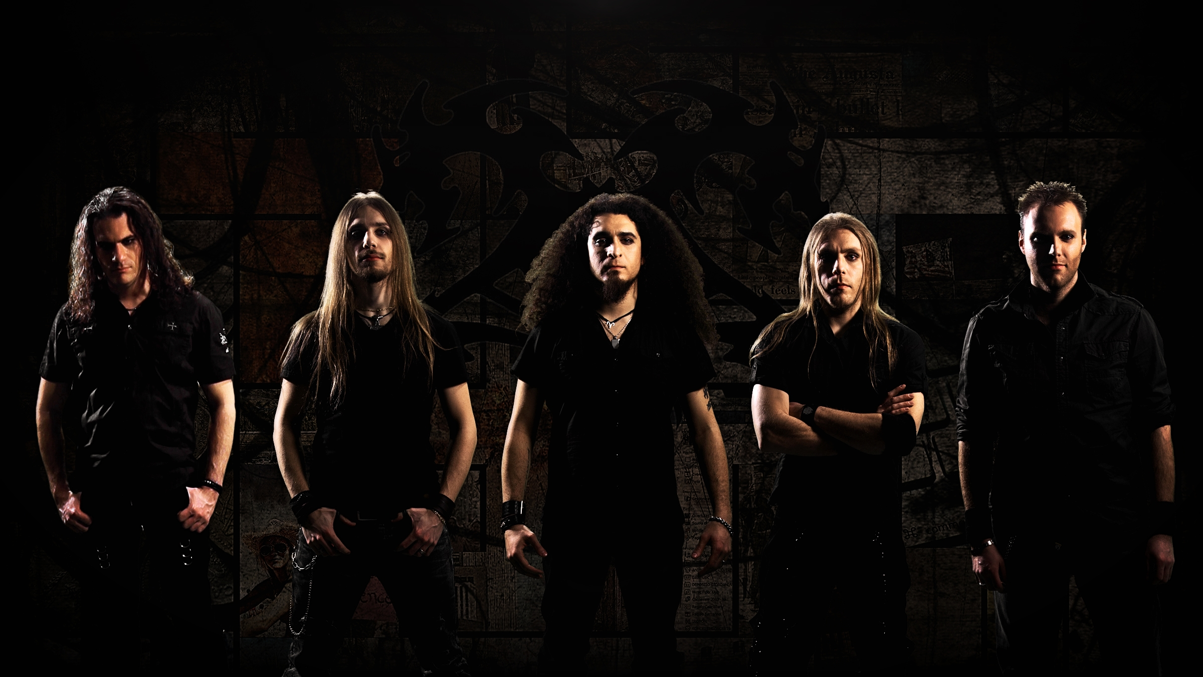 Picture of Overtures band, from Gorizia, Italy.